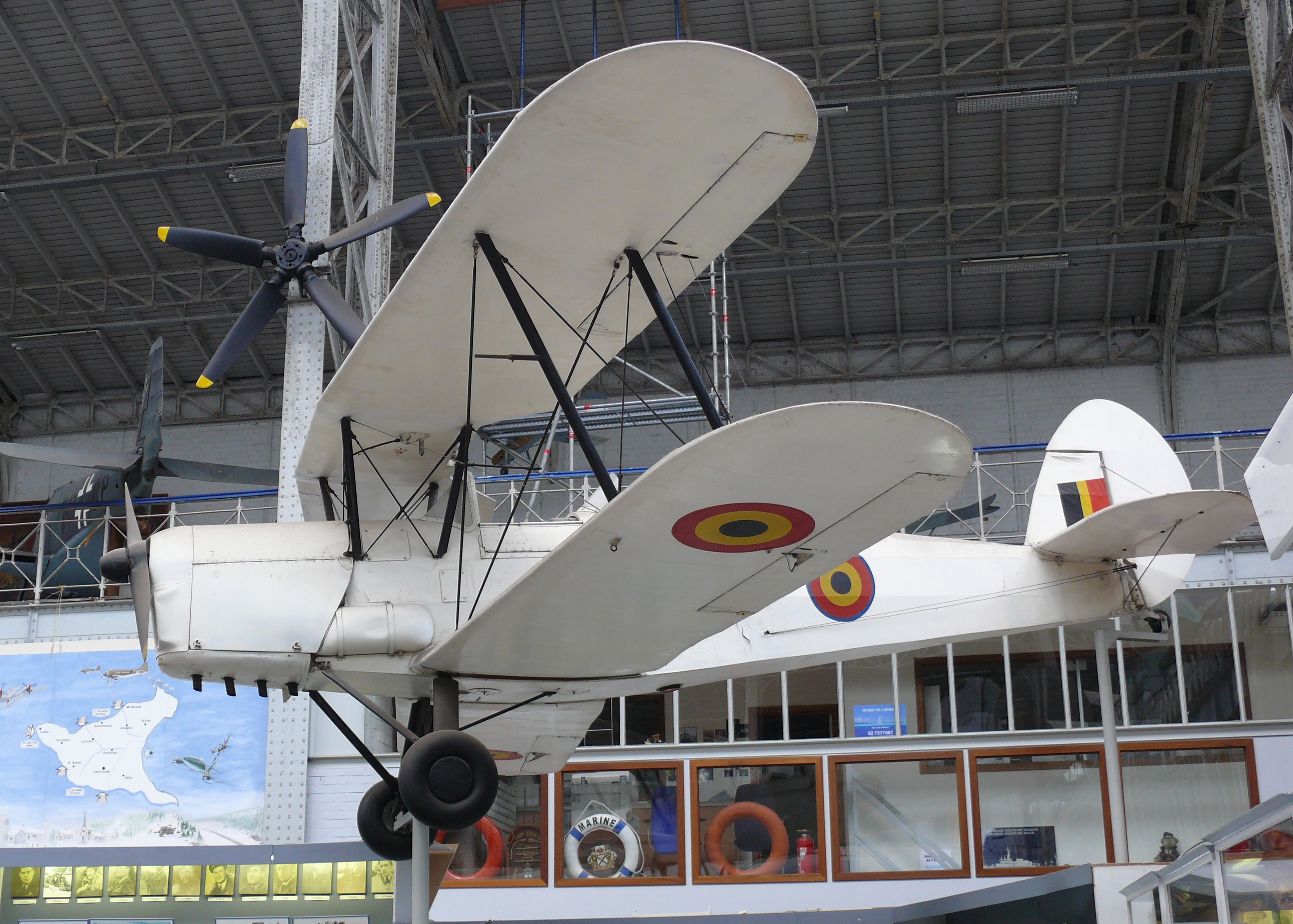 Stampe en Vertongen SV.4B (V-57 c/no. 1199 painted as OO-ATD) in the Royal Military Museum at the Jubelpark, Brussels. On 5 july 1941 Leon Divoy and Michel "Mike" Donnet escaped from German occupied Belgium to England in OO-ATD.